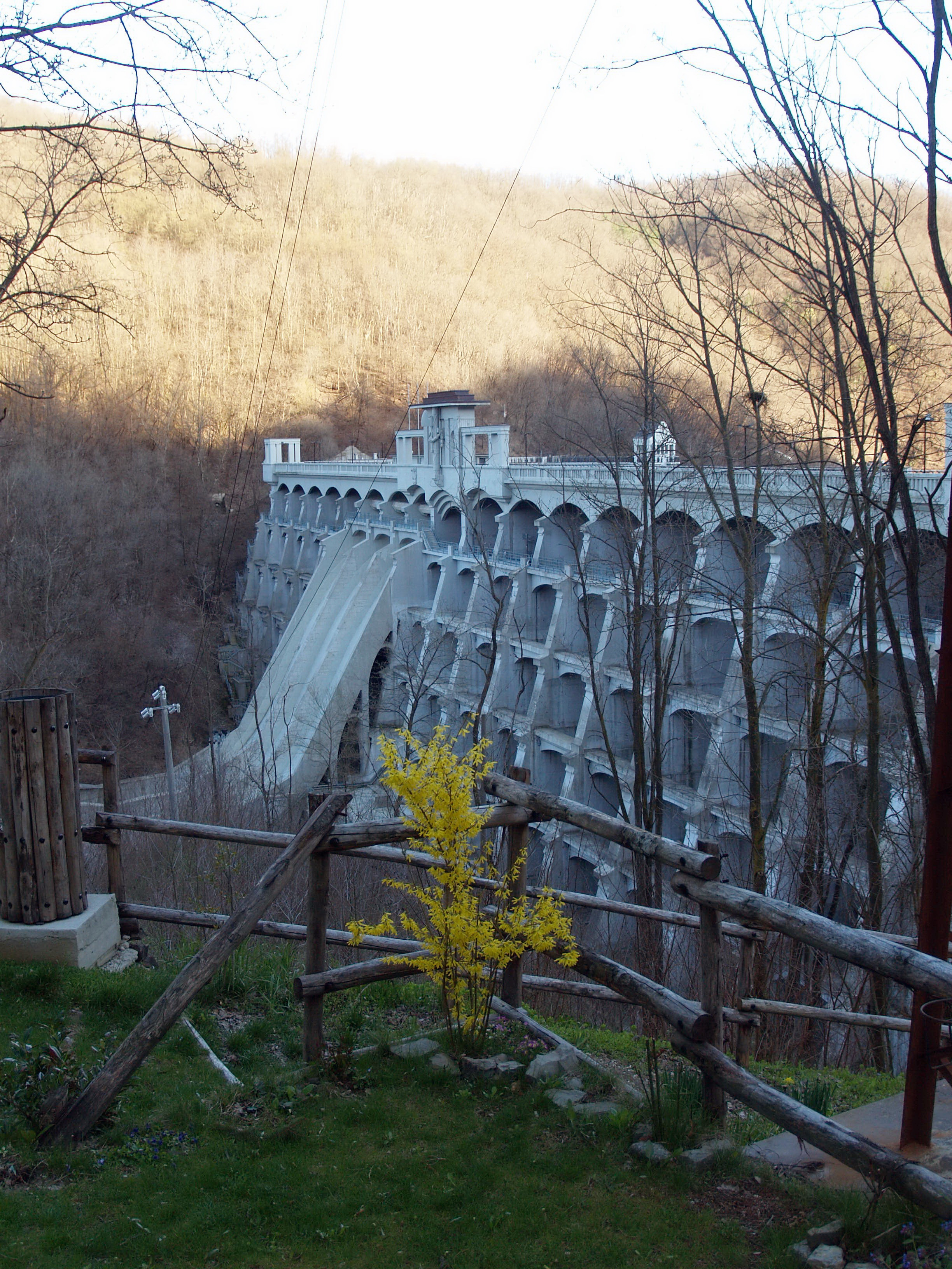 Molato dam, Val Tidone (Piacenza), Italy.